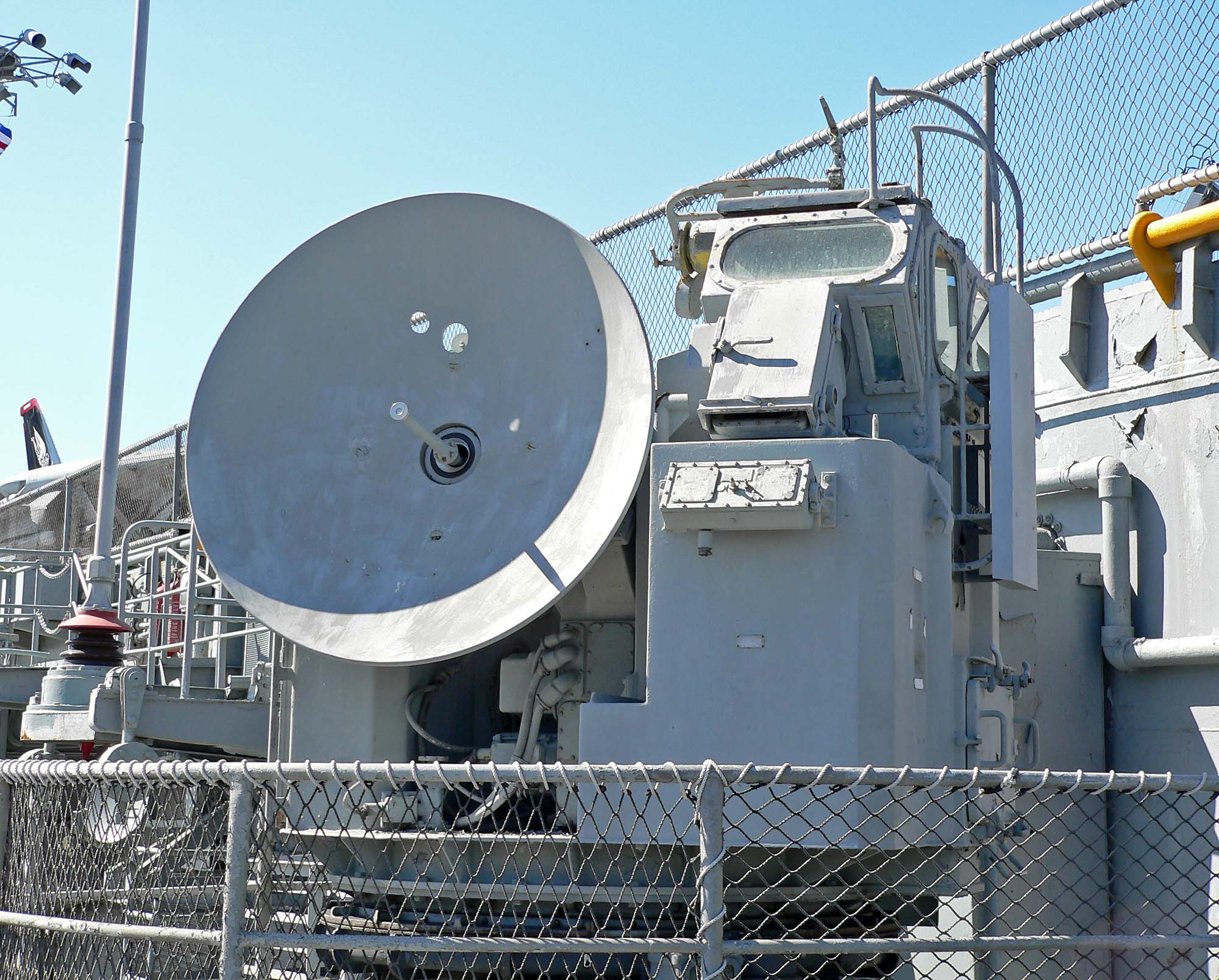 Photo of USS Hornet (CV-12) director from front